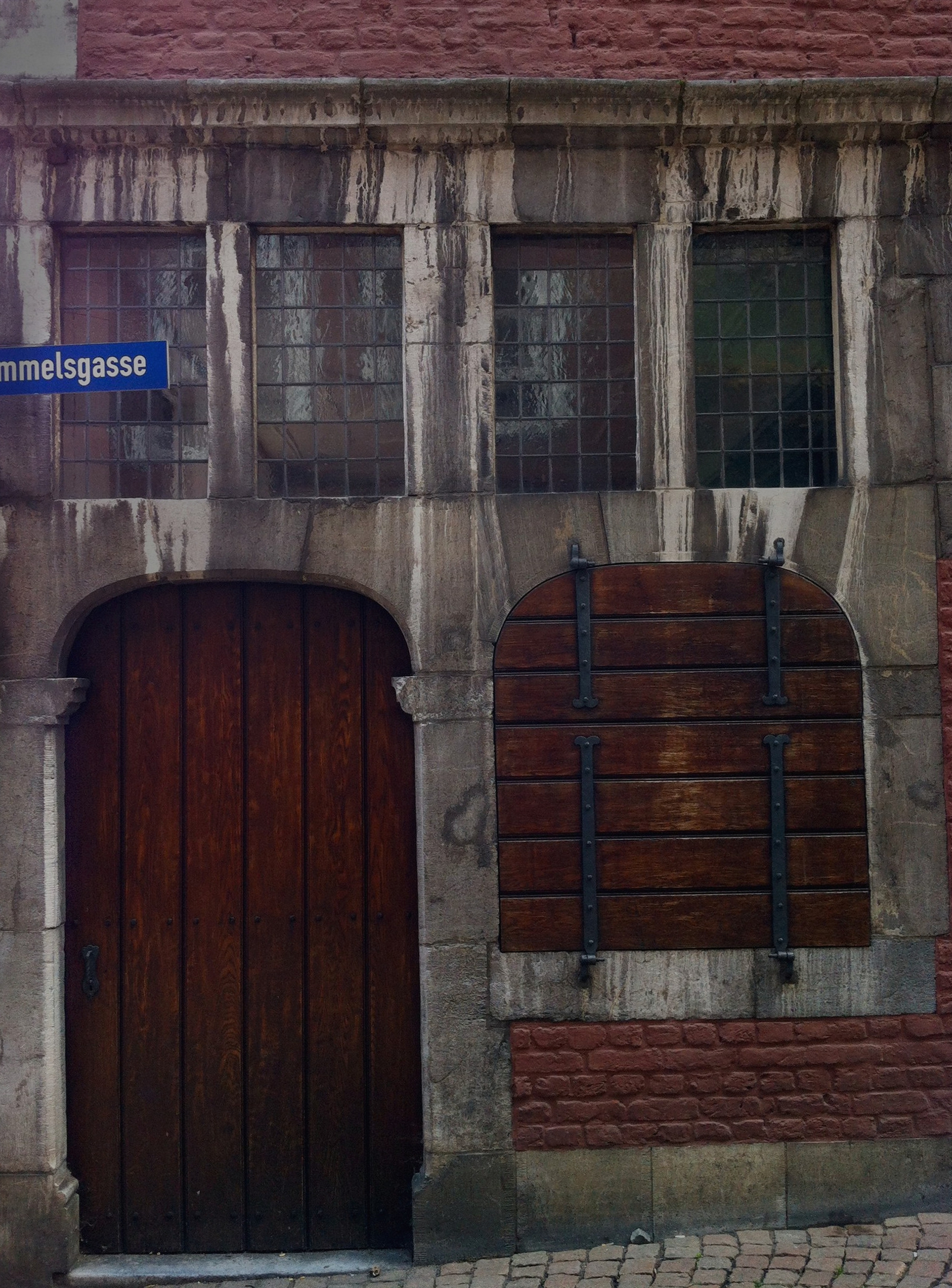 Haus Lindenbaum (Eingang und Ladenfenster) in der Rommelsgassse